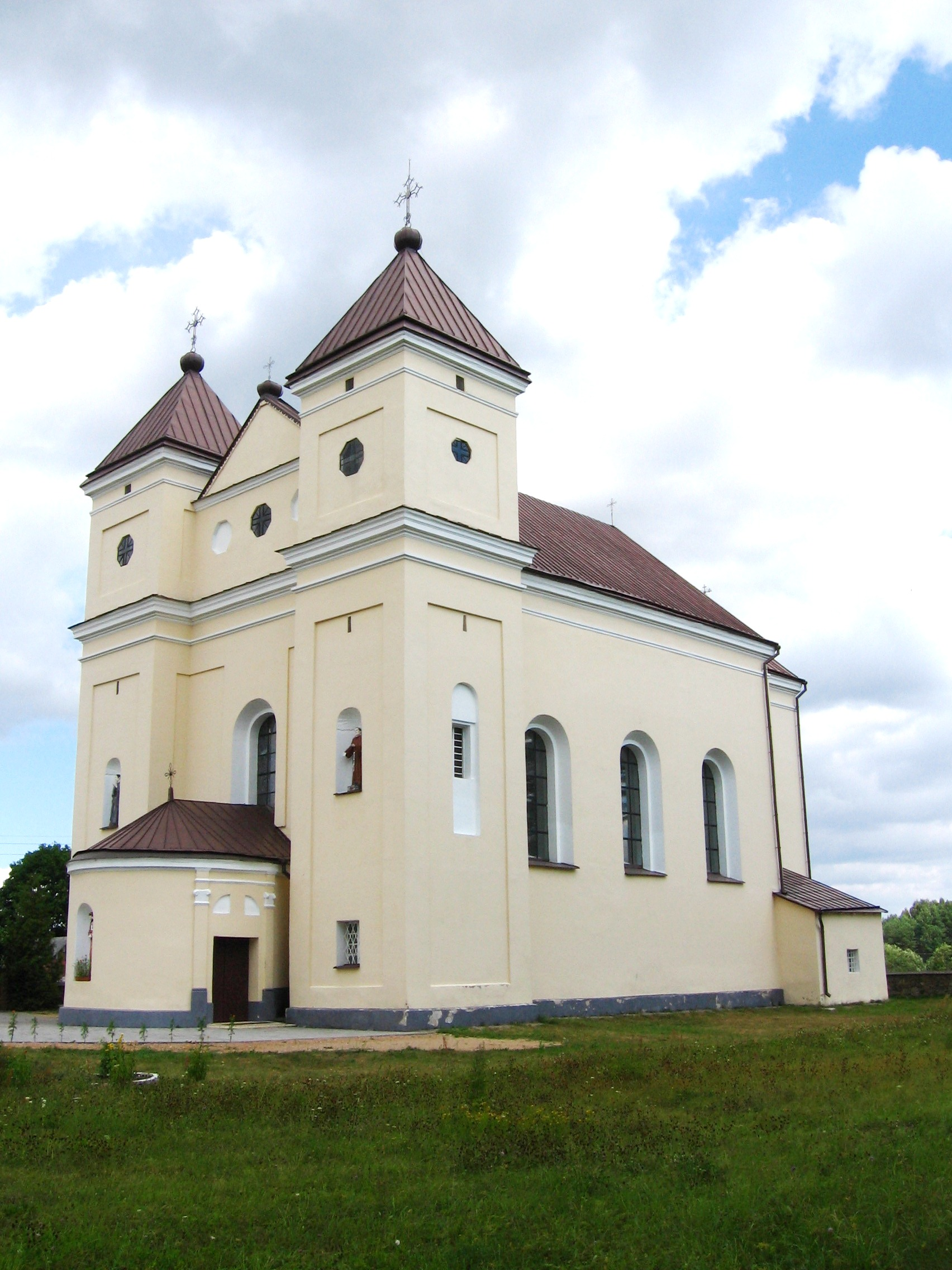 Michaliszki Catholic Church, Astraviec district, Belarus